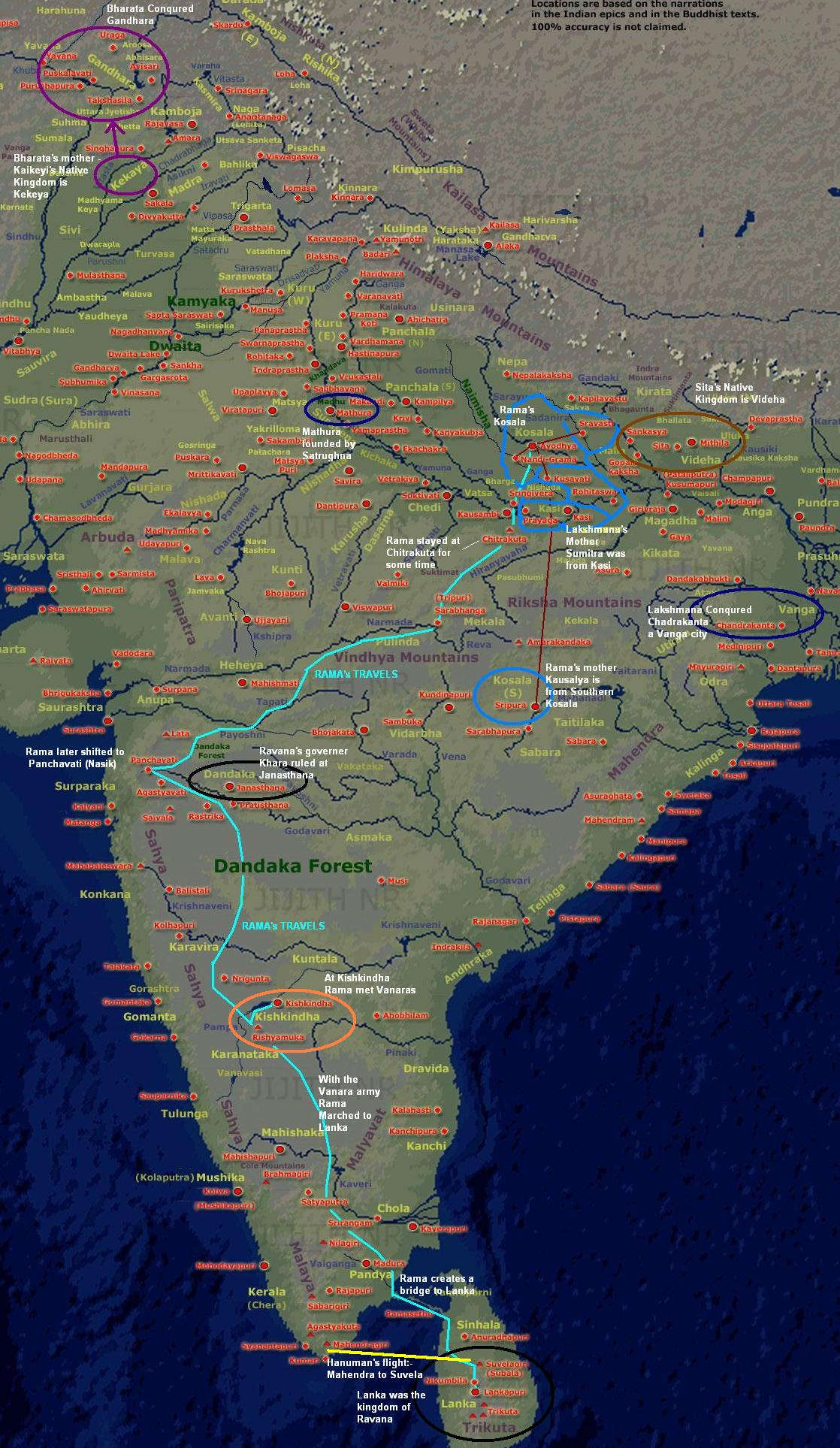 This image shows places related to Rama (and his brothers) on an Epic-Map of India. It shows the route taken by Rama from Ayodhya to Lanka. It also indicates the kingdoms linked with the epic story of Rama. Licensing Category:Ramayana Category:Places in the Ramayana hi